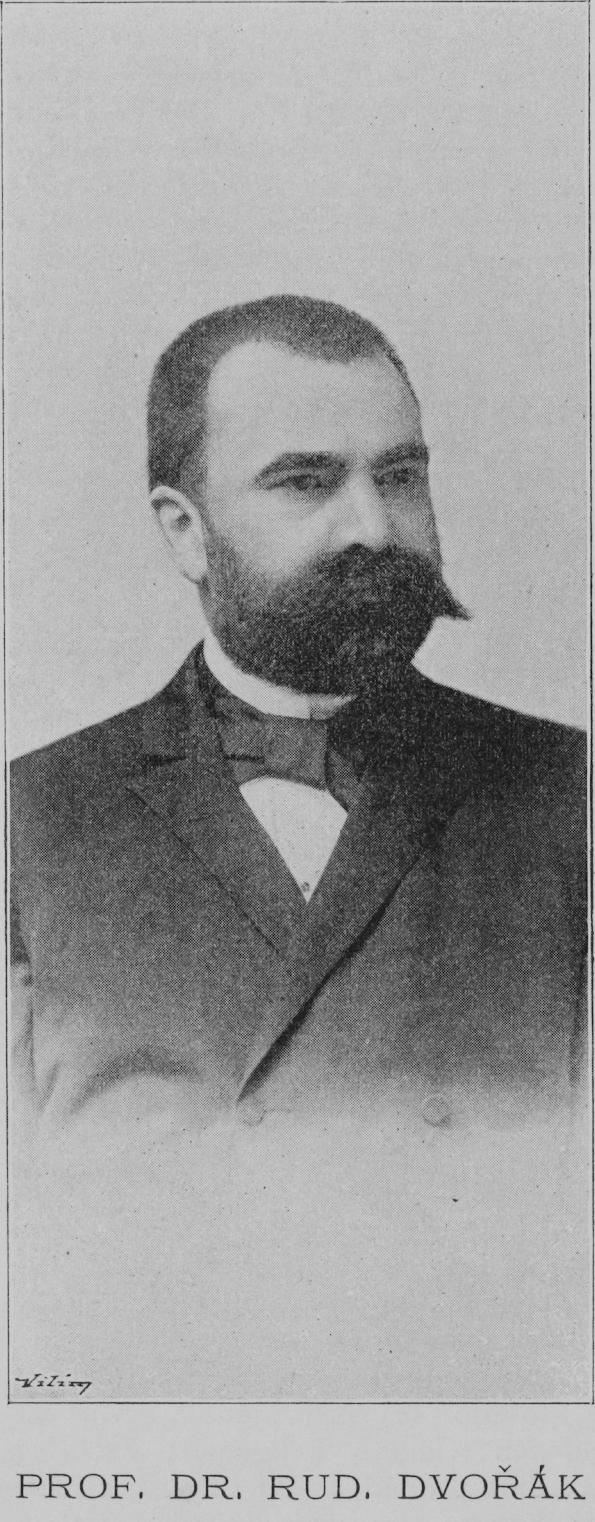 Portrait of Rudolf Dvořák (1860 - 1920), Czech orientalist.